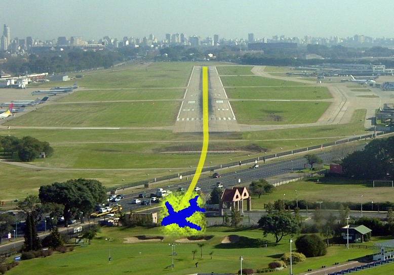 Place: Buenos Aires - Aeroparque Jorge Newbery (AEP / SABE) Description: Approximate path of the doomed LAPA 3142 flight in Buenos Aires on Aug 31, 1999 killing 65 people.